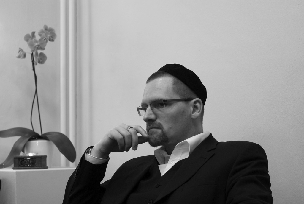 Portrait of German writer Benjamin Stein, provided by himself on request.